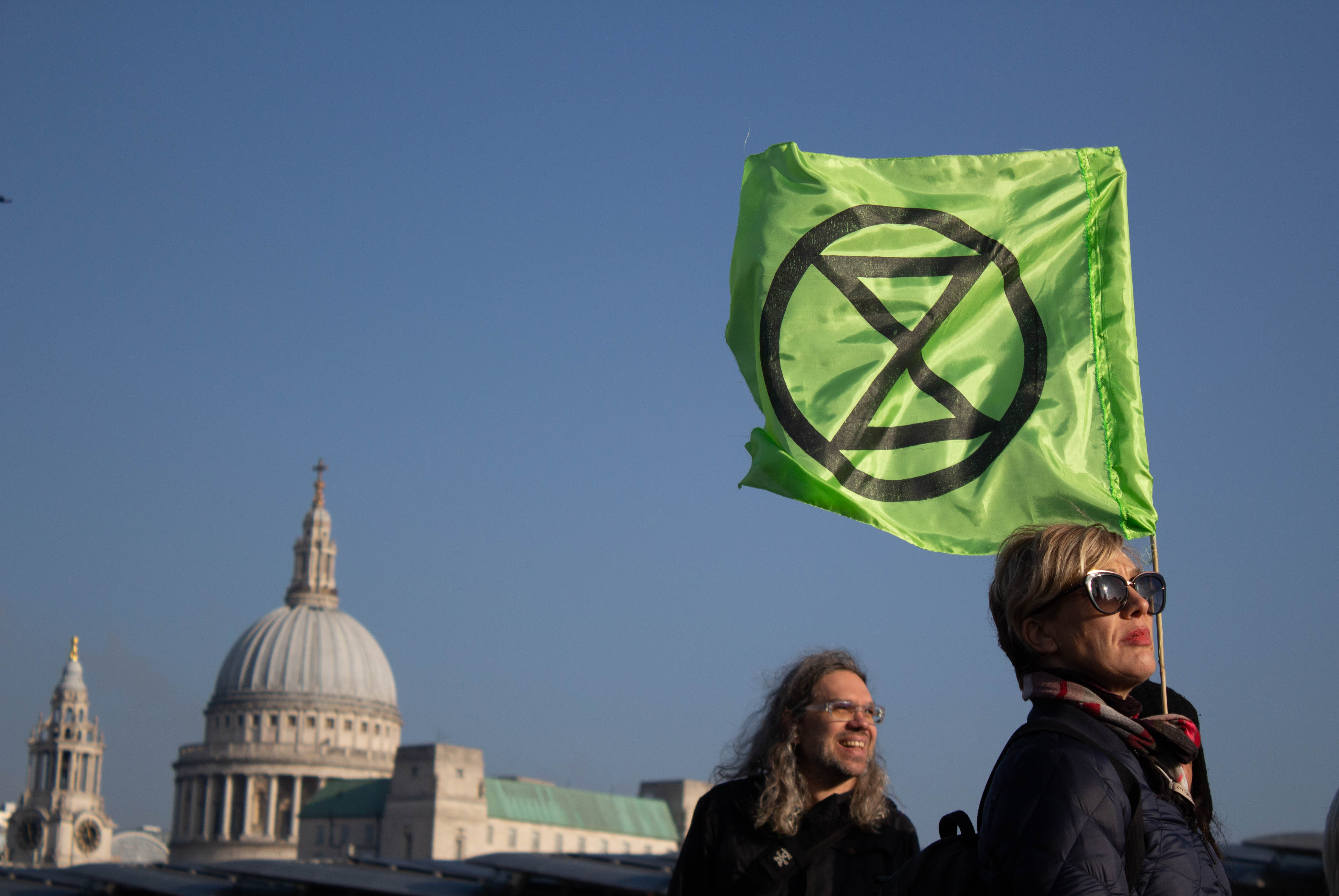 Extinction Rebellion-4